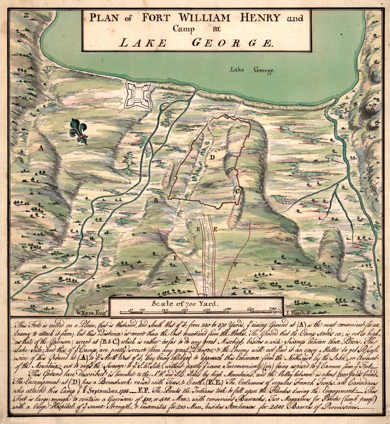 Plan of Fort William Henry and Camp at Lake George.